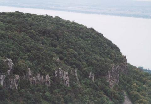 Mountain of Badacsony - Hungary